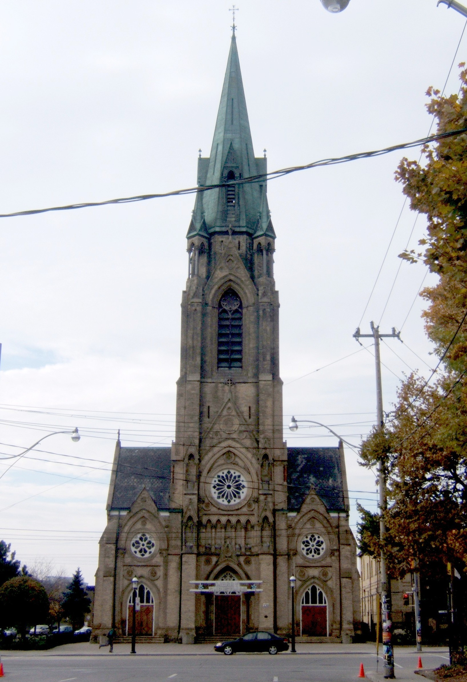 Photo along Adelaide Street to St Marys Roman Catholic Church